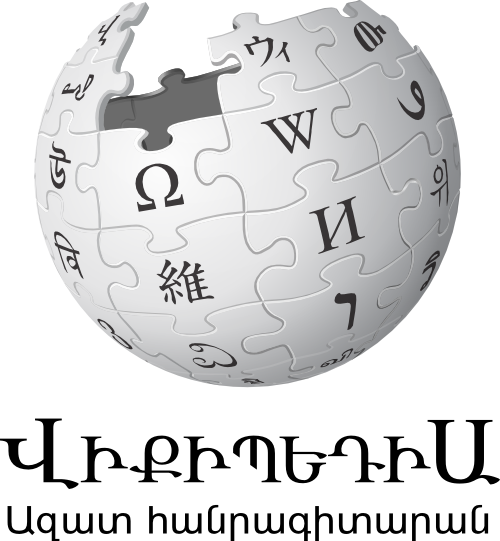 Armenian Wikipedia logo using FreeSerif font